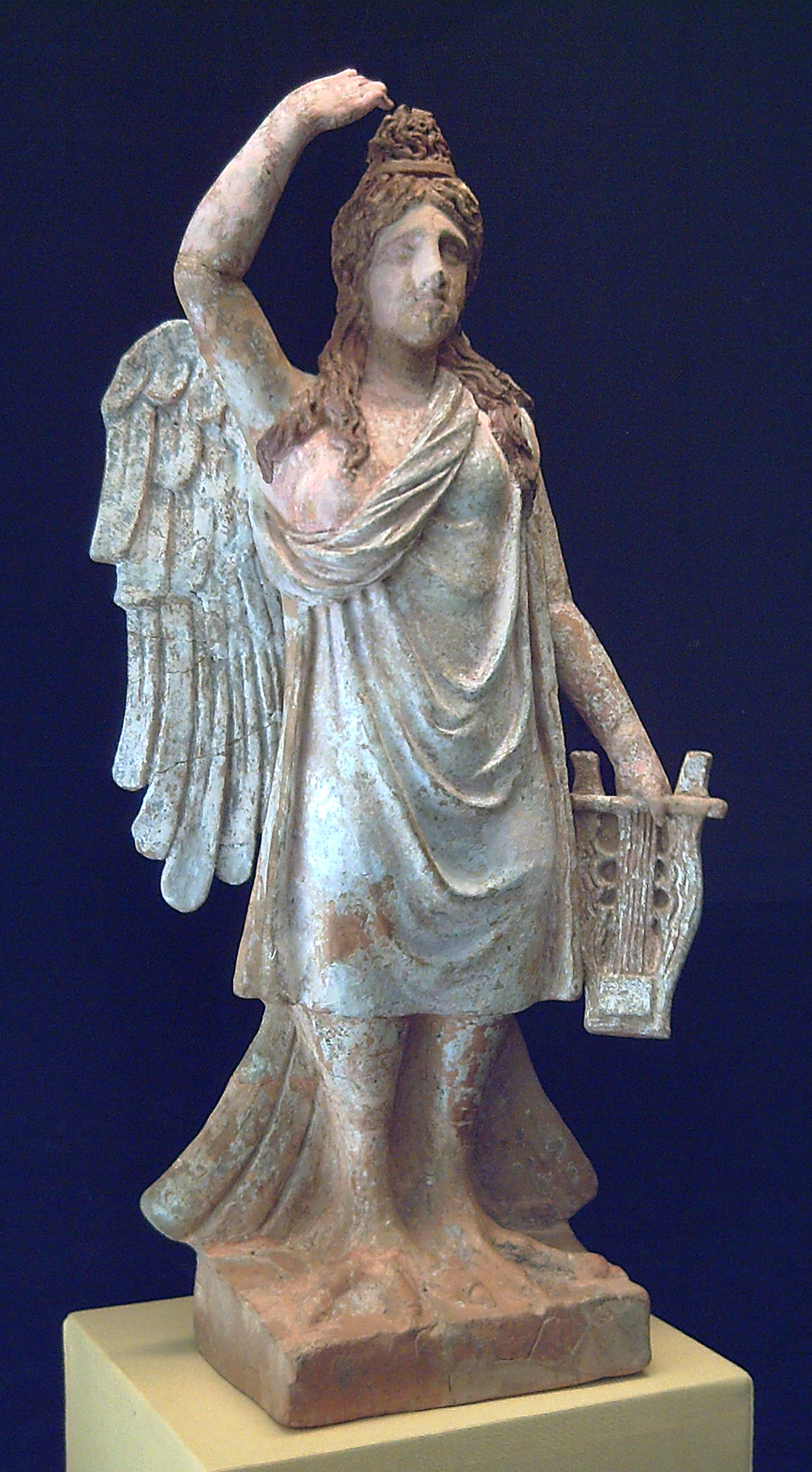 Statuette of a Siren, represented with legs, wings and a bird's tail, carrying a zither, and rising her right arm over her head (a typical moaning sign). It had a funerary and psychopomp condition.